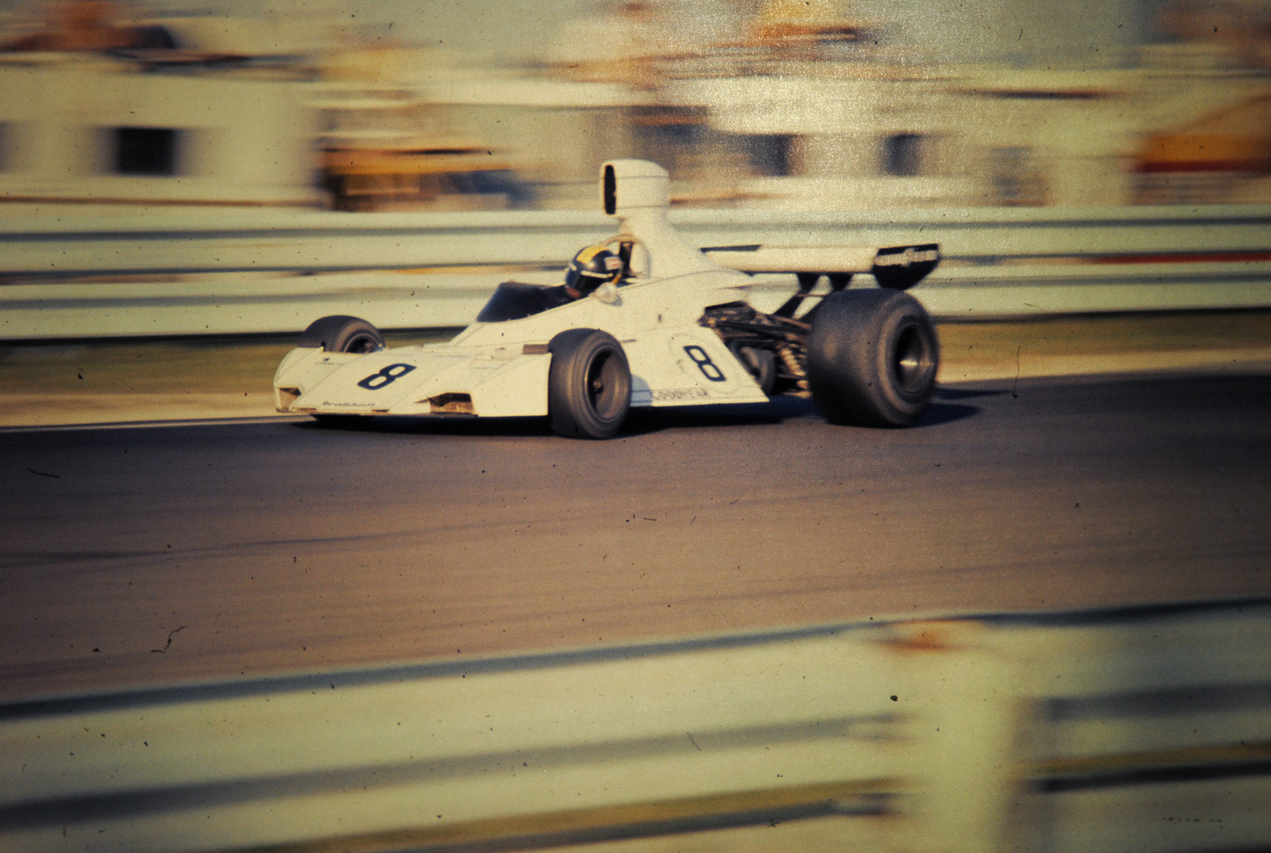 Carlos Pace, driving his Brabham Ford at the 1974 United States Grand Prix.